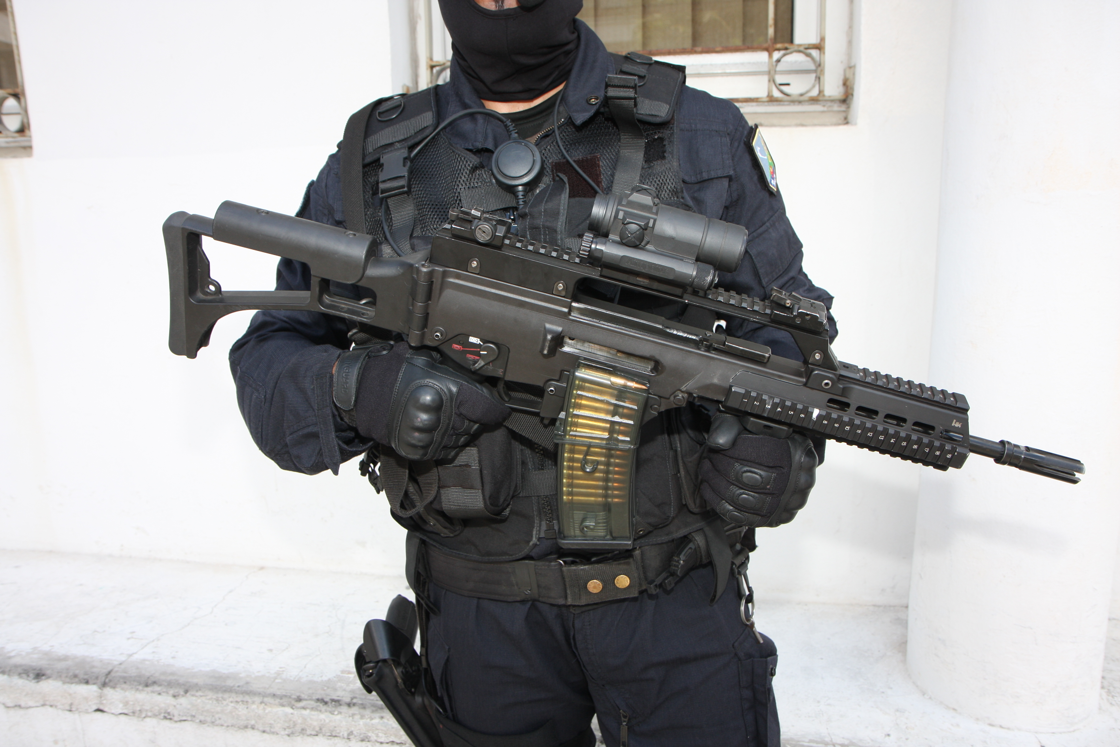 French Gendarmerie AGIGN officer sporting G36 assault rifle